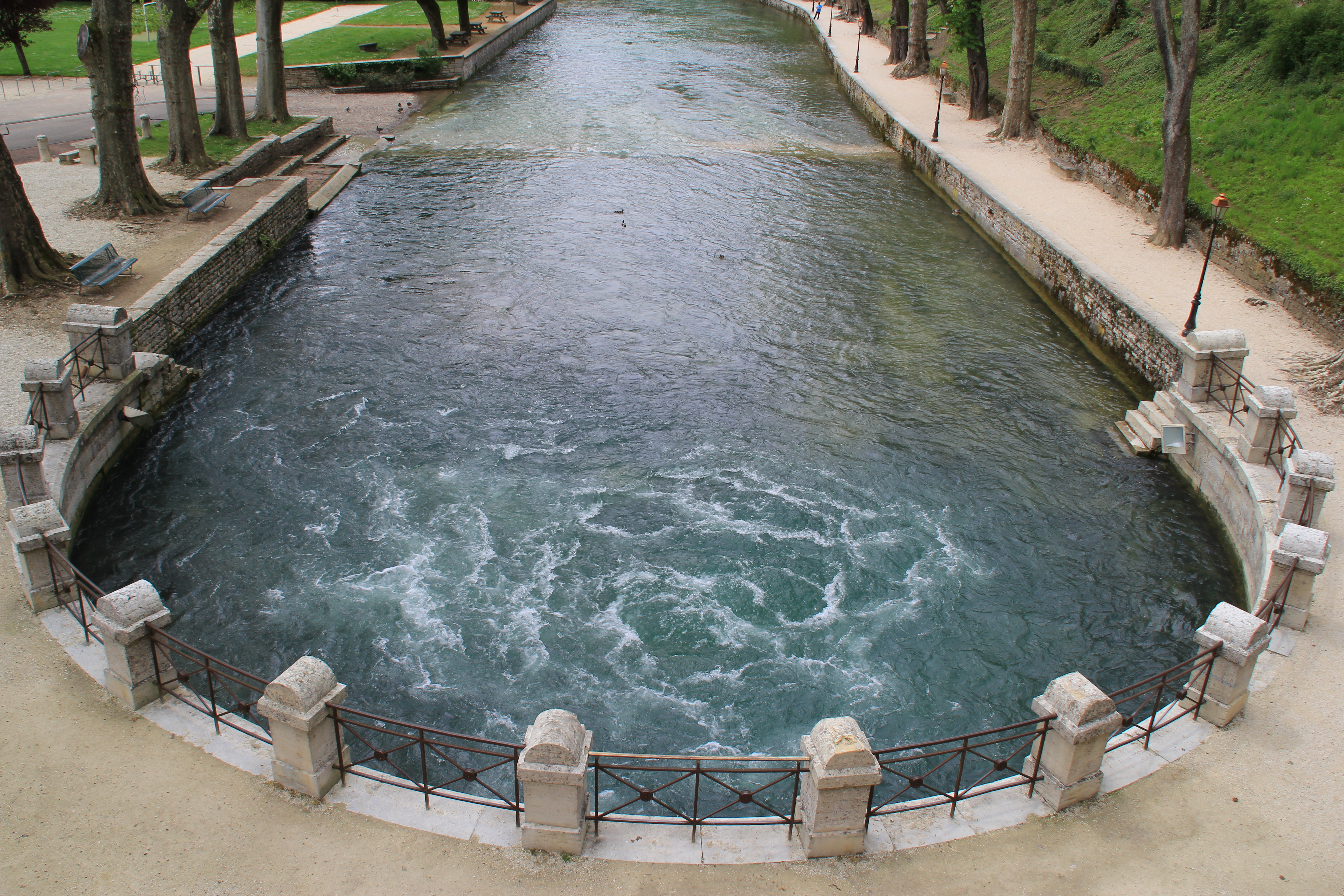 The Source de la Bèze in Bèze, France